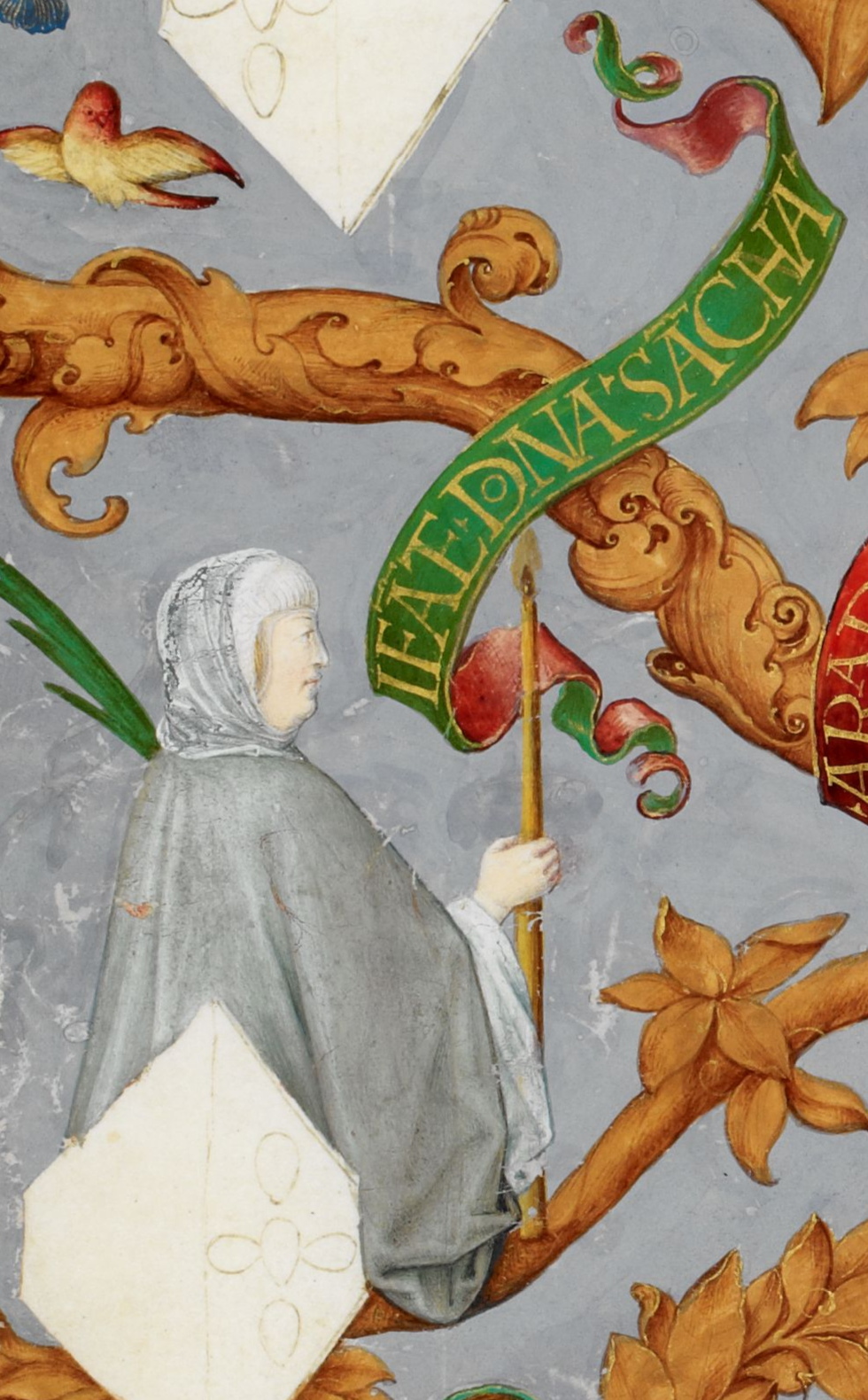 Blessed Sancha of Portugal (1180-1229), Lady of Alenquer and Abbess of Lorvão.